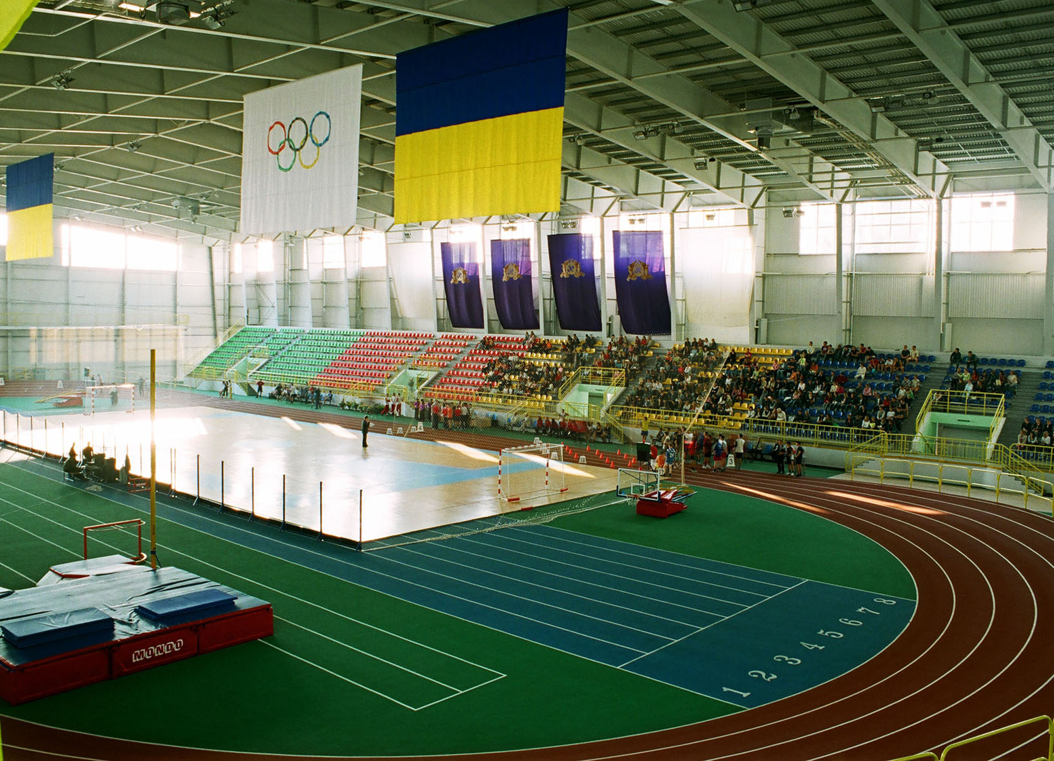 The Sports Complex the "Ukrainian Academy of Banking of the National Bank of Ukraine" (in Sumy, Ukraine)